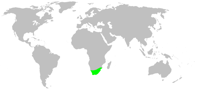 Chummidae habitat distribution, drawn after Platnick: World Spider Catalog 7.0. This is not at all a precise rendering of the distribution! If you have better information, please replace this map, or send me the info, and i will redraw it.